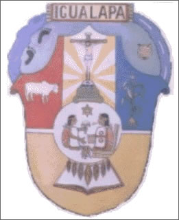 City seal of Igualapa, a town in Guerrero state of southwestern Mexico.